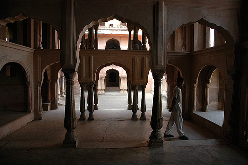 Wind Palace Architecture of Mahal